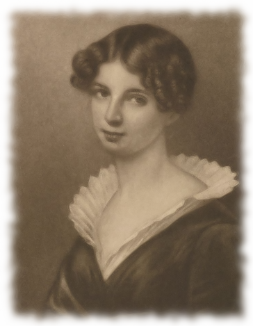 Portrait of Lady Magdalen Hall